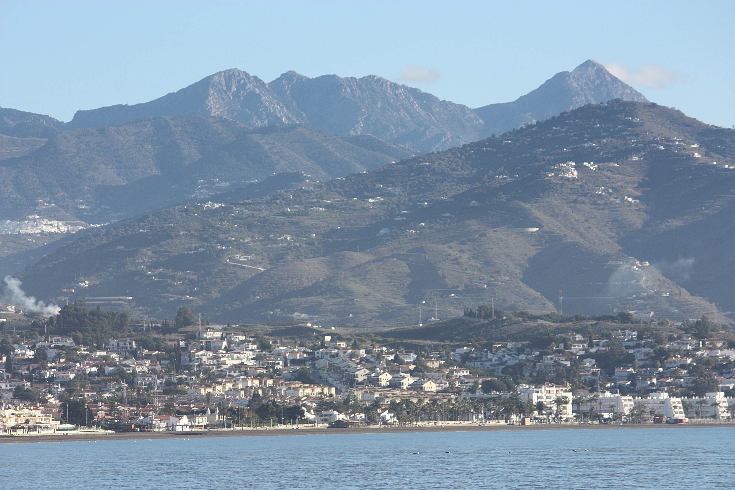 Torre del Mar, view from the beach to the mountains and to Algarrobo